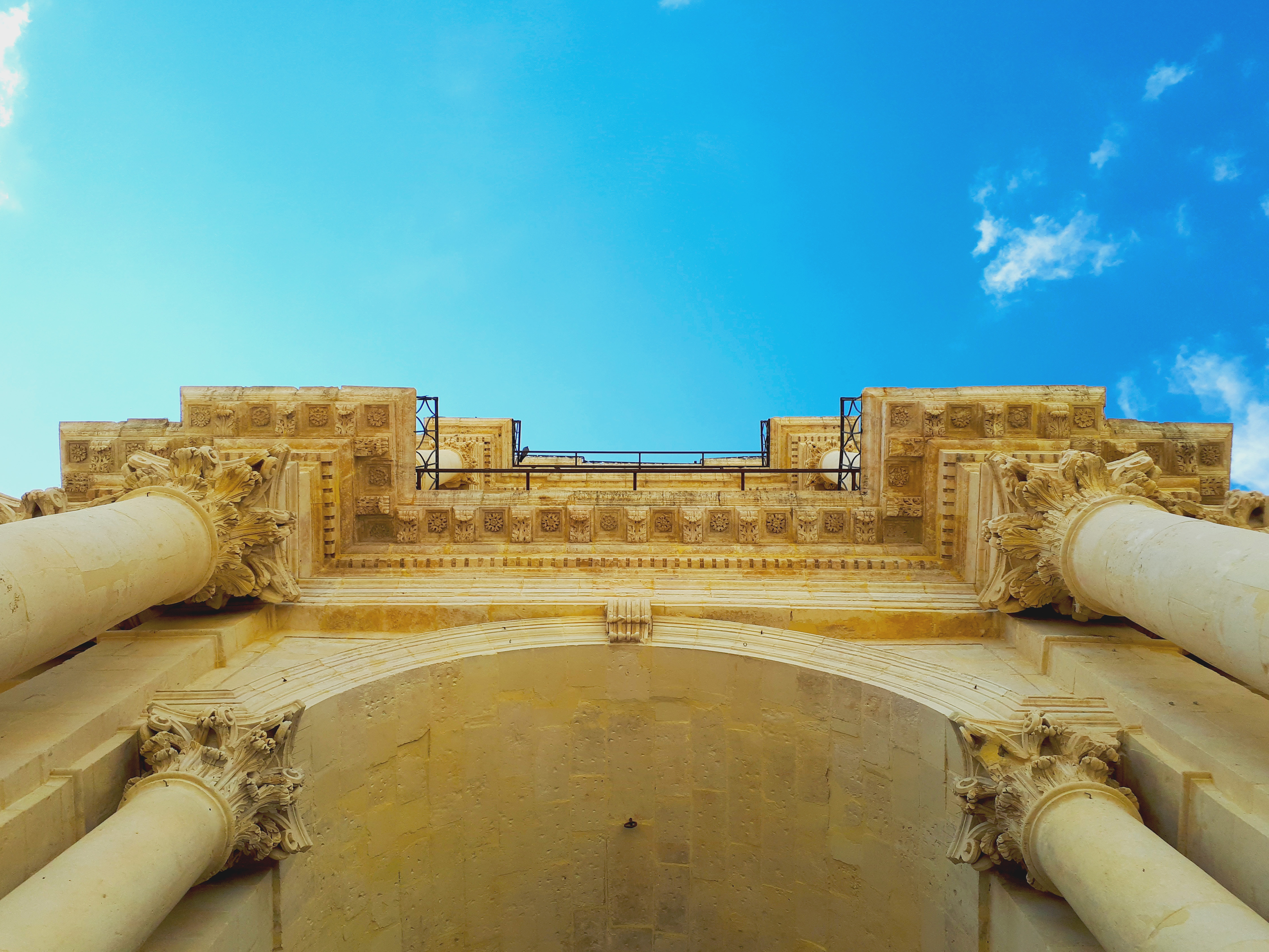 The Baroque Central Portal of the St. Paul Church This is a photo of a monument which is part of cultural heritage of Italy.